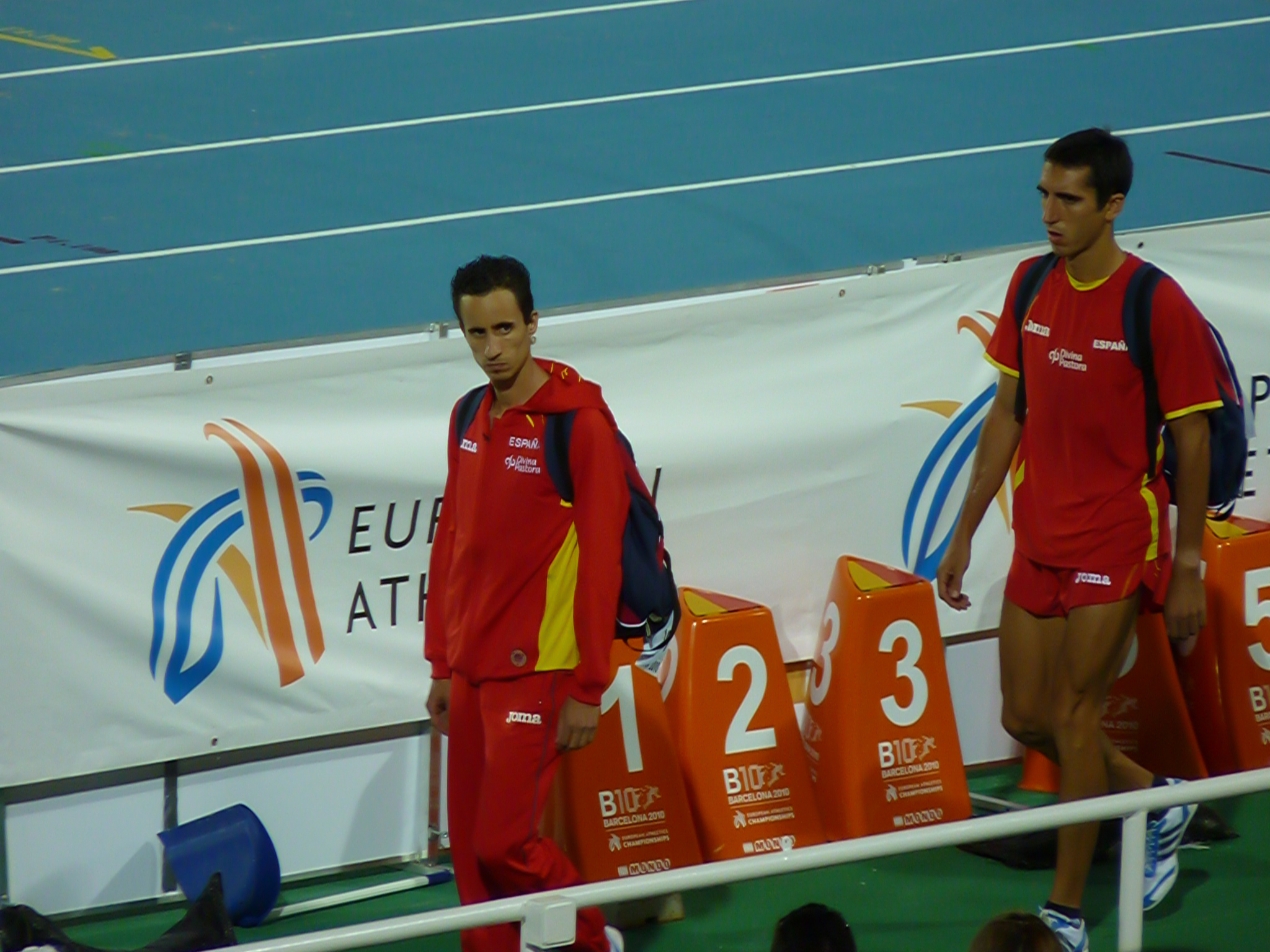 Manuel Olmedo and Arturo Casado, both winning medals on 1500 metres in 2010 European Championships in Athletics.